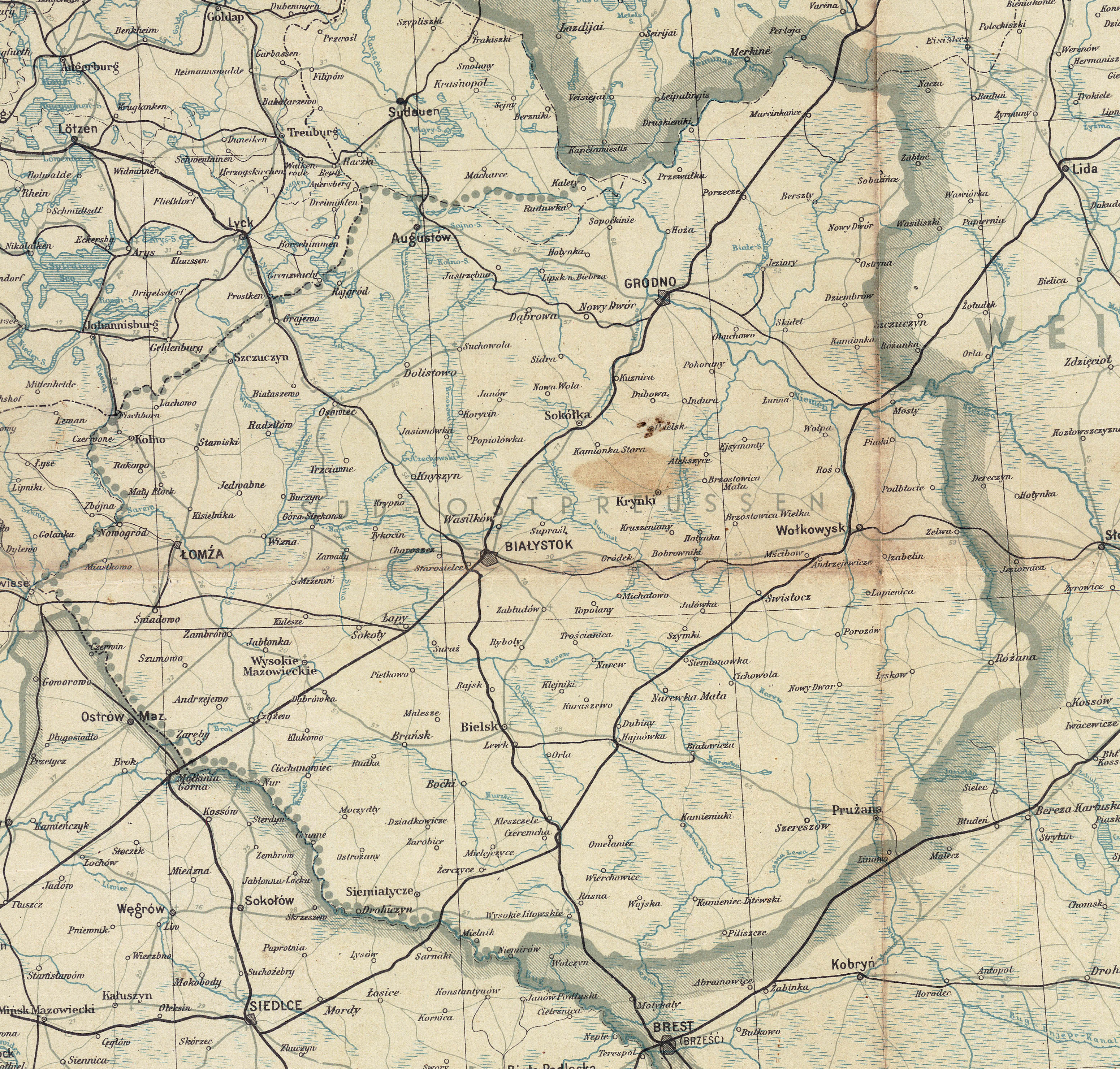 A part of a map of Germany printed in July 1944 by a German unit: leichte Karten-Druckerei-Abtl. (mot) 530.